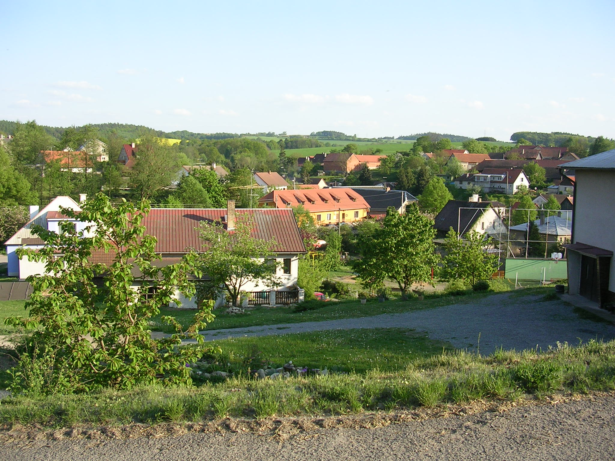 Petroupim, Benešov District, Central Bohemian Region, the Czech Republic.